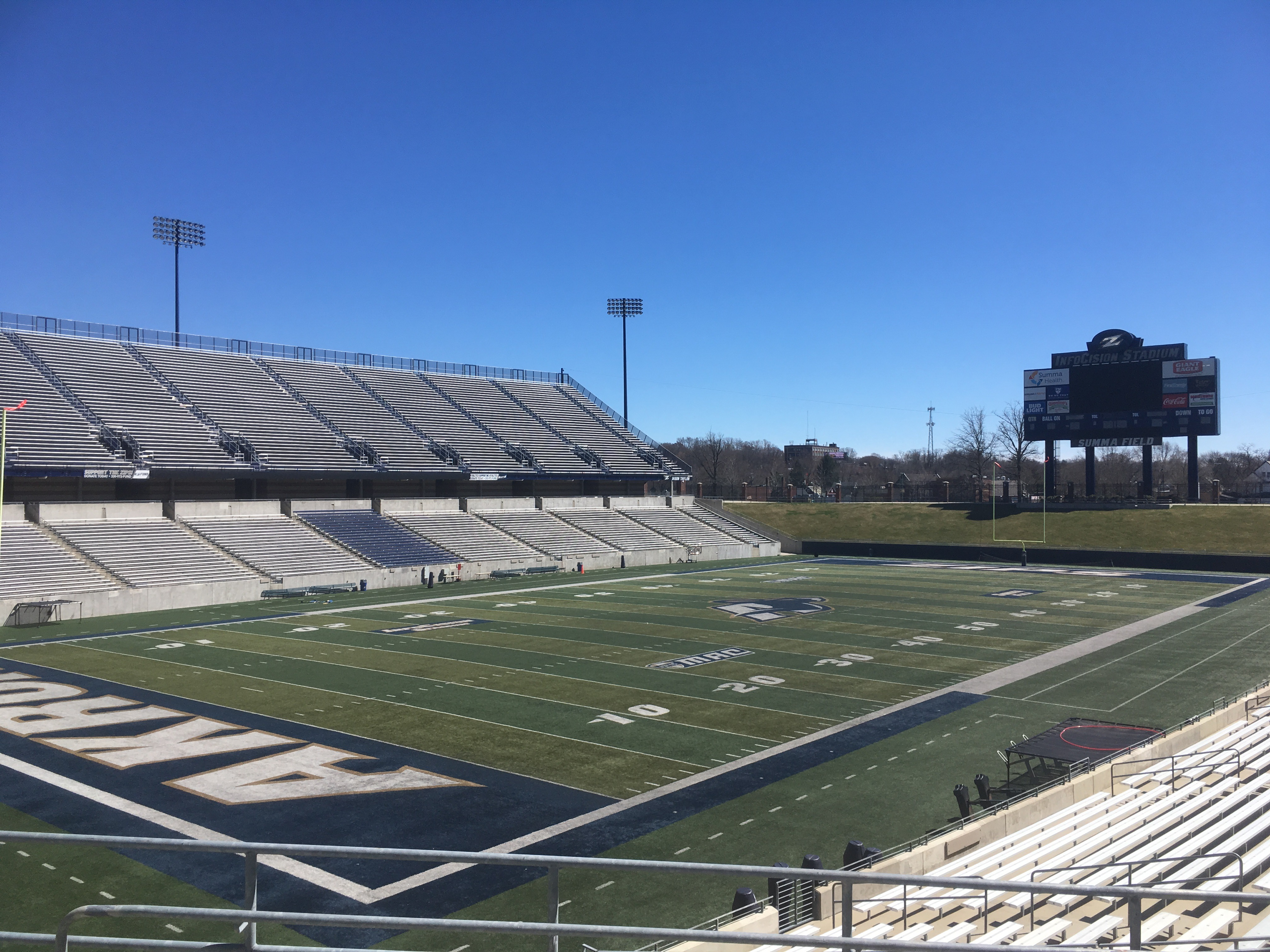 UAkron Summa Field